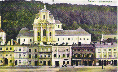 Most Holy Trinity Church in Fulnek, Czechia.